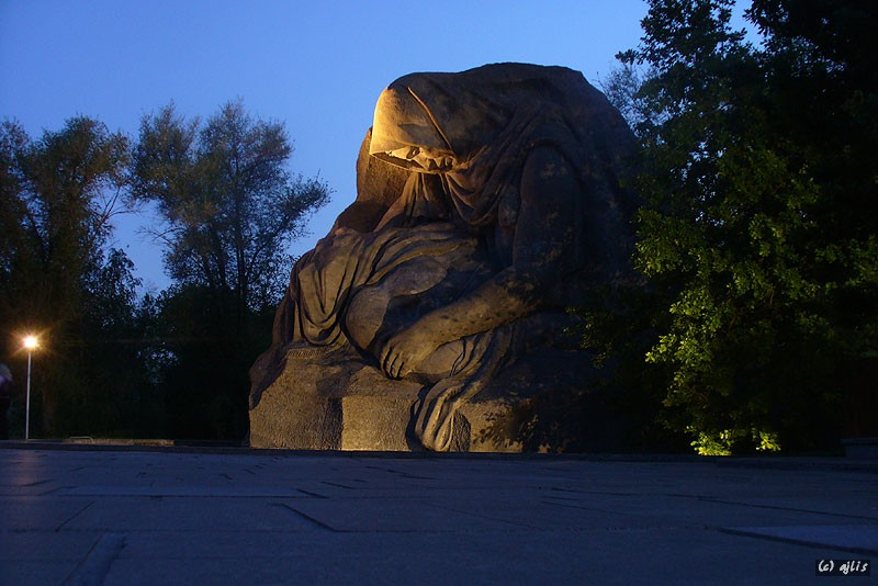 mamayev kurgan